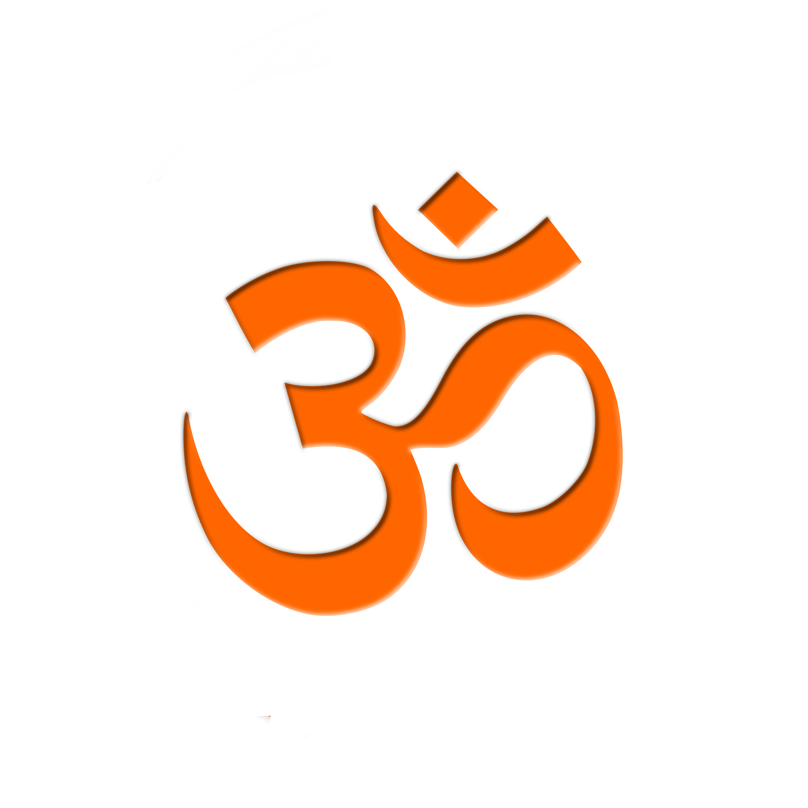 Om Logo